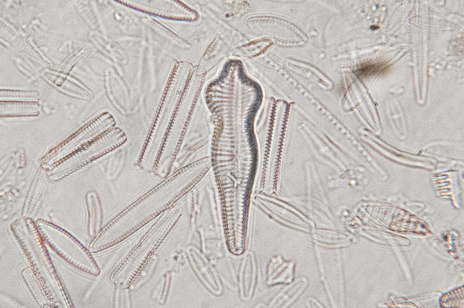 Gomphonema acuminatum